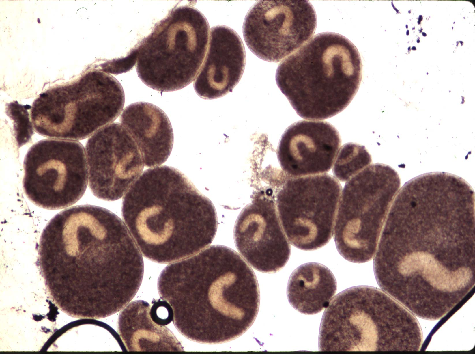 Ichthyophthirius multifiliis (ich) a common single-celled parasite of wild fish that finds its way into hatcheries through their water supplies (often streams and rivers that harbor wild fish populations).